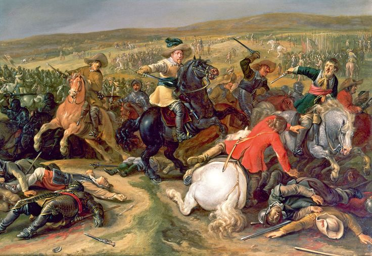 Gustavus Adolphus in action (probably at Lützen), by Jan Martszen de Jonge